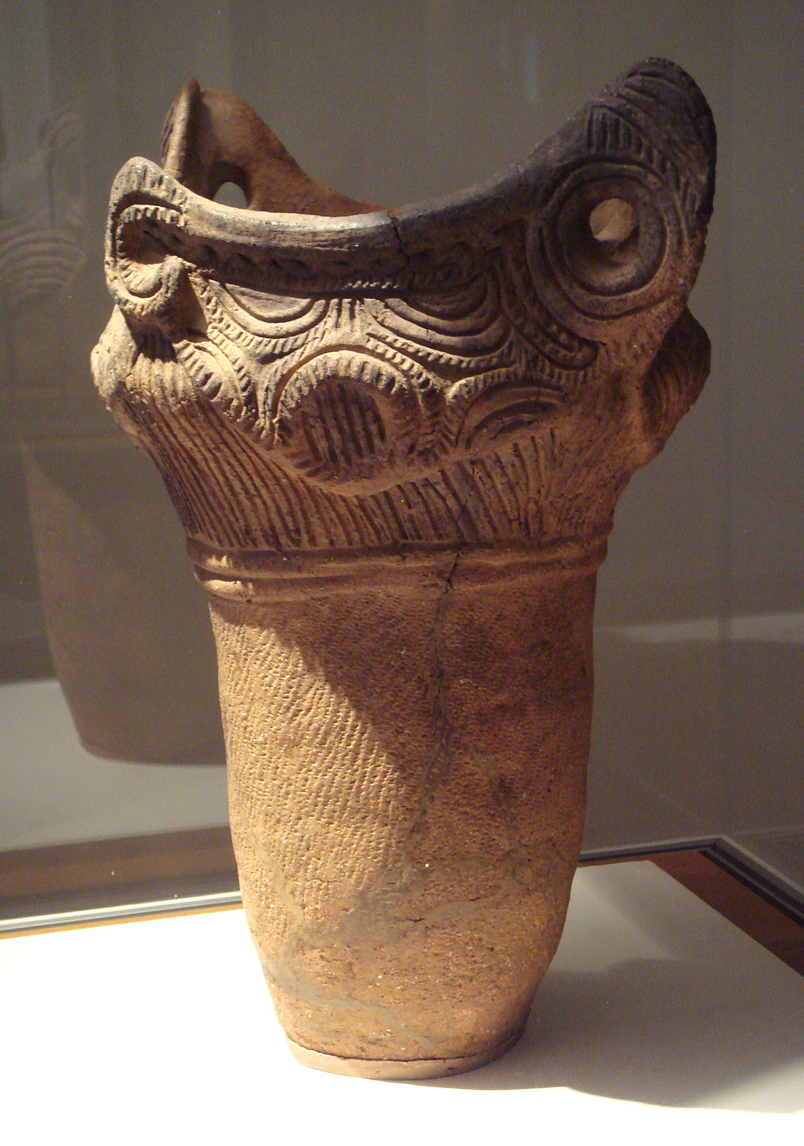 Middle Jomon Jar 2000 BCE